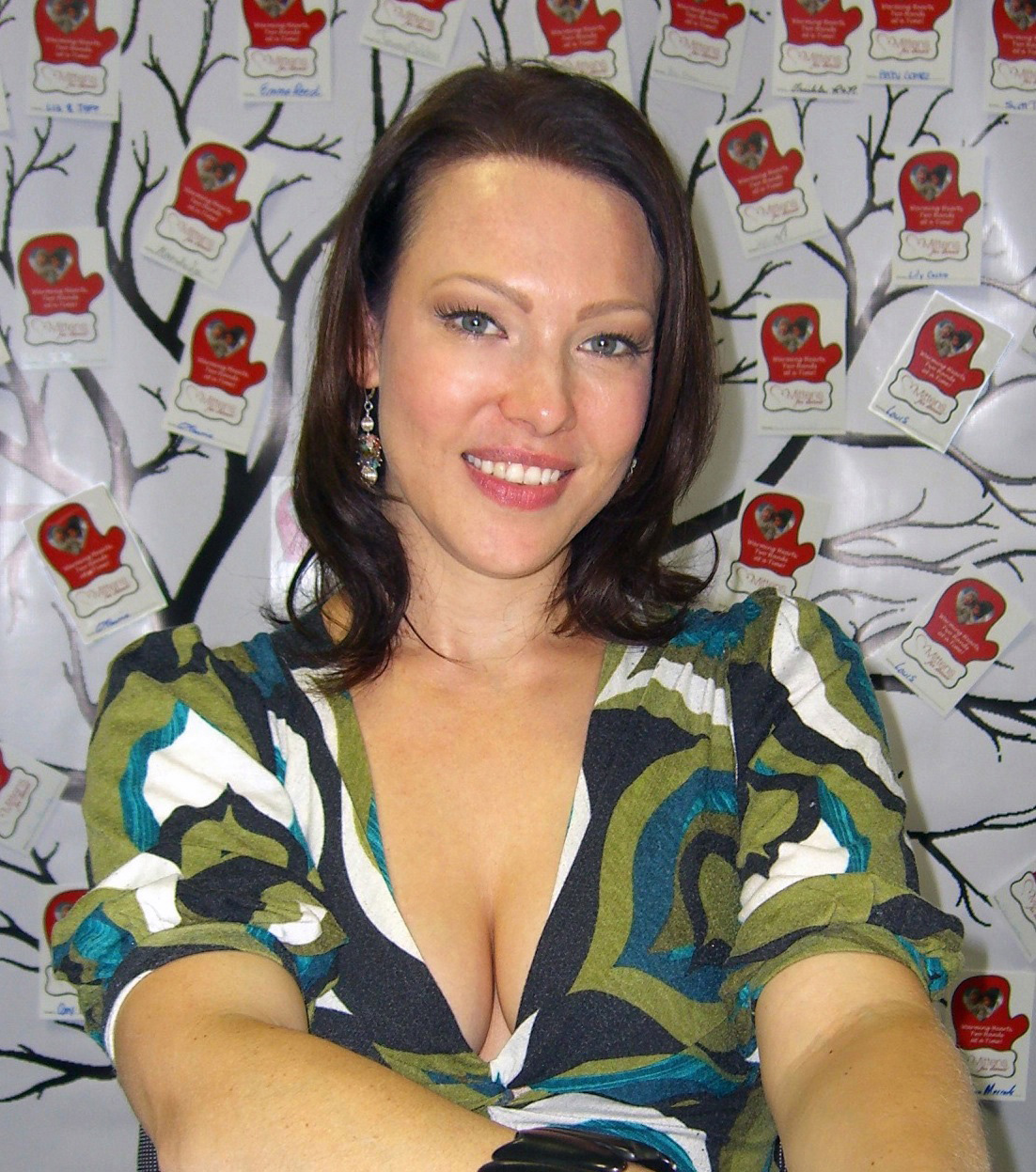 Actress Erin Cummings photographed against a poster for her charity, Mittens for Detroit, at the New York Comic Con, October 15, 2011. This photo was created by Luigi Novi. It is not in the public domain, and use of this file outside of the licensing terms is a copyright violation.